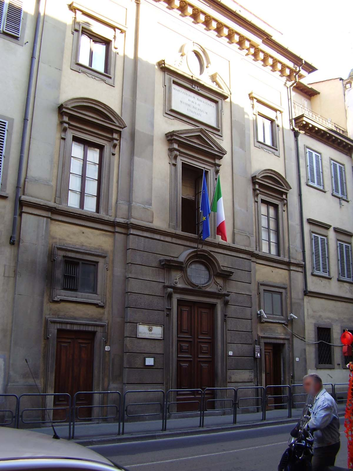 Biblioteca Marucelliana, facade of library, in Florence, Italy.